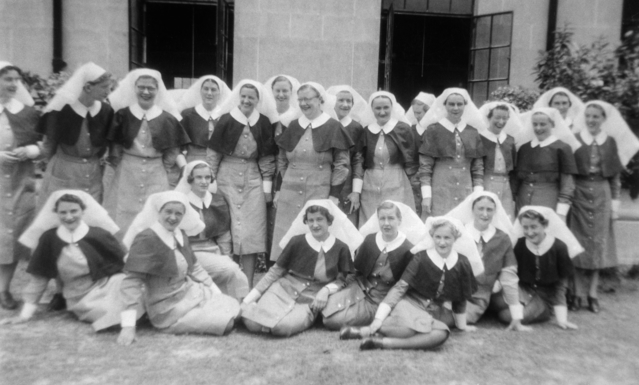 Group portrait of the nursing staff of 2/13th Australian General Hospital. Identified, left to right, back row: VFX61331 Sister (Sr) Gladys Laura Hughes (taken prisoner of war (POW) following the sinking of the Vyner Brooke and died of illness on 31 May 1945); SFX13419 Sr Annie Merle Trenerry (drowned following the sinking of the Vyner Brooke); SX13431 Sr Lorna Florence Fairweather (one of 22 nurses who survived the sinking of the Vyner Brooke and were washed ashore on Radji Beach, Banka Island, where they surrendered to the Japanese, along with 25 British soldiers. On 16 February 1942 the group was massacred, the soldiers were bayoneted and the nurses were ordered to march into the sea where they were shot); SFX13548 Lt Carrie Jean (Jean) Ashton (taken POW following the sinking of the Vyner Brooke); VX61226 Sr Bessie Christina Ellen Muldoon; VFX61330 Sr Vivian Bullwinkel (survived the massacre on Radji Beach, then taken POW by the Japanese, she survived and was able to give evidence in the war crimes trials); SFX10504 Matron Irene Melville Drummond (massacred on Radji Beach); SX13420 Sr Maude Lyall Spehr; V9259 Sr Bessie Christina Taylor (no further information); NX76276 Sr Marie Evelyn Hurley; NX76275 Sr Mary Eleanor McGlade; SX13418 Lt Florence Rebecca Casson (massacred on Radji Beach); NX76282 Lt Veronica Ann Clancy; TX6020 Sr Harley Rosalind Brewer; NX76279 Sr Janet Kerr (murdered on Radji Beach). Front row: TX 6024 Sr May Eileen Rayner; NX76284 Sr Ada Joyce Bridge murdered on Radji Beach); WX11174 Sr Minnie Ivy Hodgson; SX12140 Sr Nellie Pearce Bentley; Sr Betty H Garood; Sr Seeholm (no further information); SX13081 Sr Elvin Minna Wittwer.